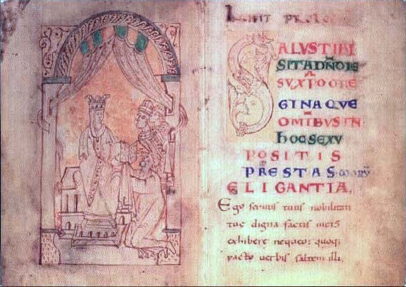 The Encomium Emmae Reginae -- Queen Emma of Normandy receiving the Encomium Emmae from its author, with her sons Harthacanute and Edward the Confessor in the background.